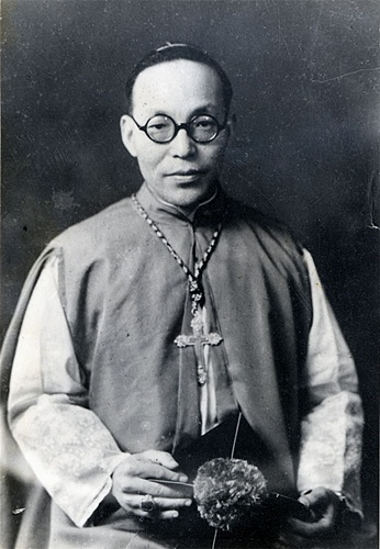 Most Rev. Francis Hong, D.D.